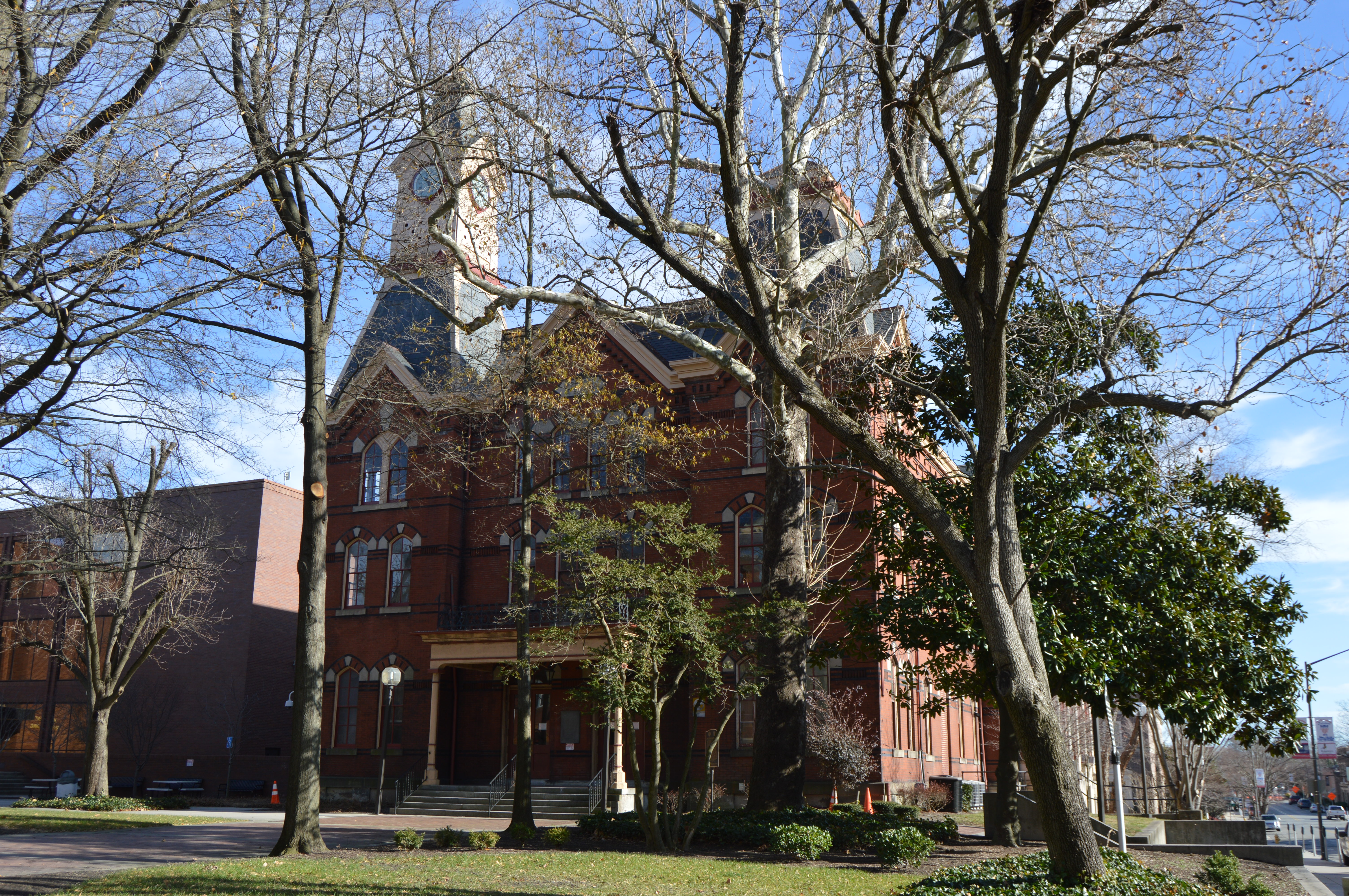 Front and southern side of the Wicomico County Courthouse, located at 101 N. Division Street in Salisbury, Maryland, United States.